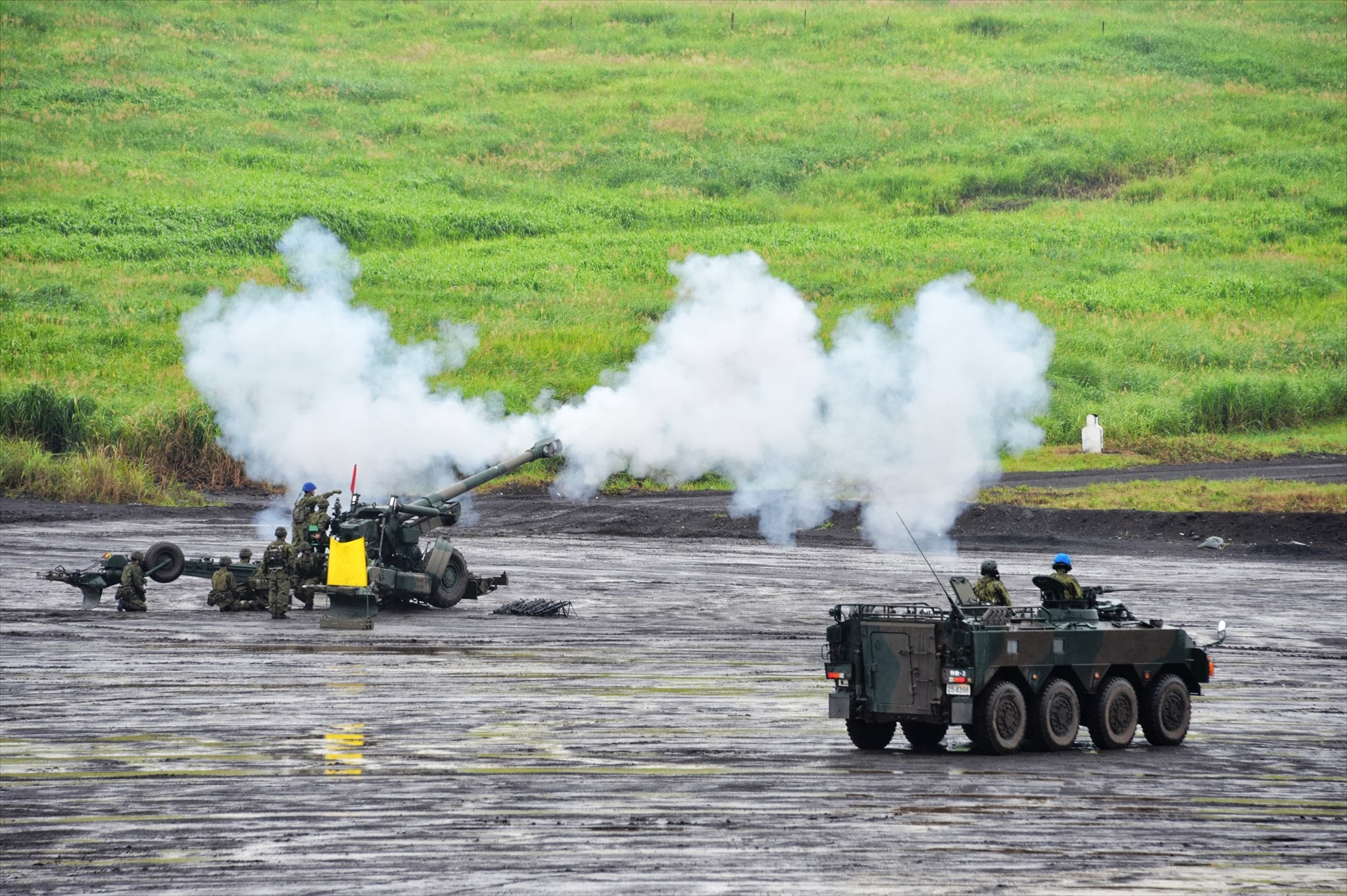 Title 前段1・遠距離火力9-3_155mmりゅう弾砲FH70中隊・大隊効力射.JPG Album 富士総合火力演習・そうかえん 平成２５年度富士総合火力演習 前段演習・特科火力（155mm榴弾砲FH70）